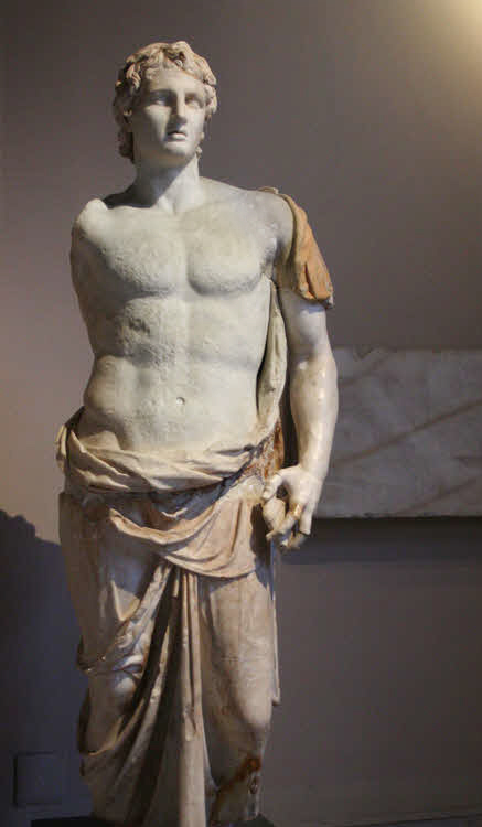 3rd century BC statue of Alexander the Great, signed "Menas". Istanbul Archaeology Museum. Minor photoshop work to remove or reduce blemishes, a crack, etc.